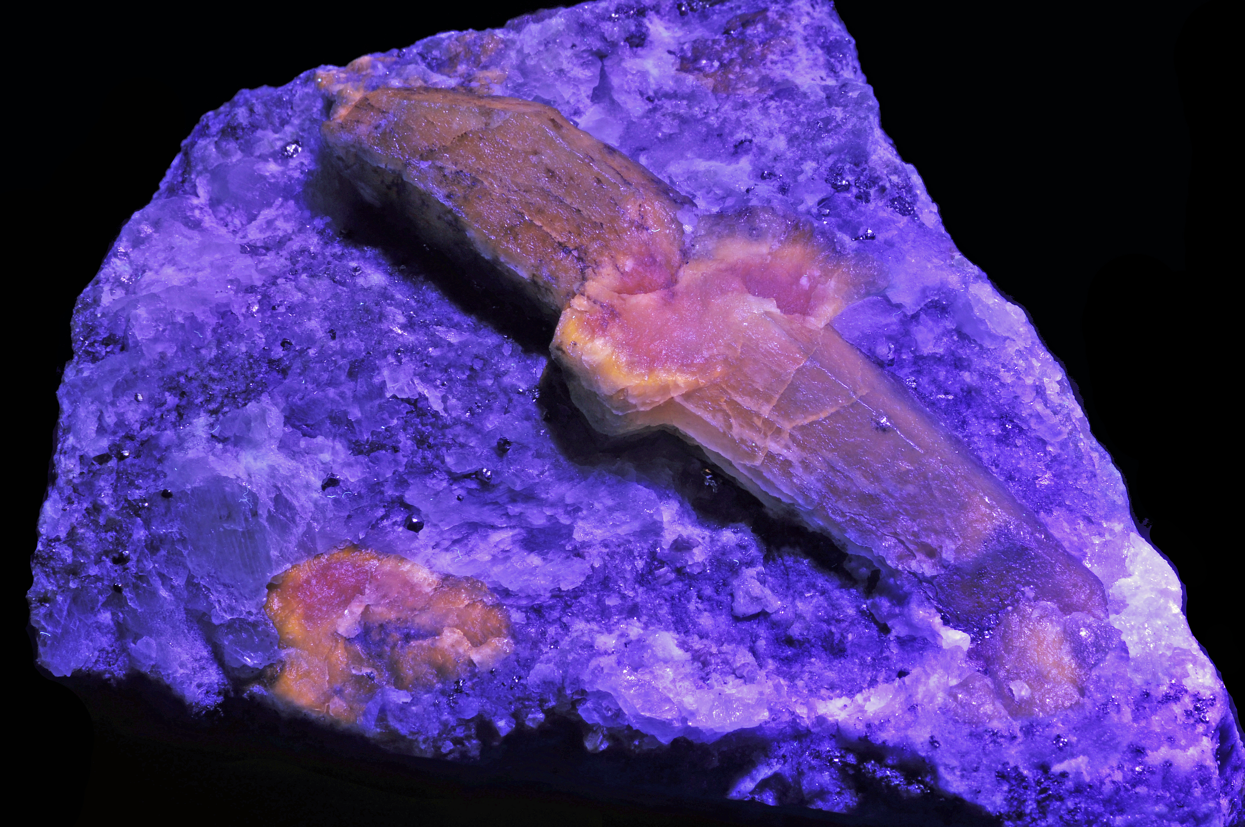 afghanite, pyrite, calcite, under UV Long waves : Sar-e-Sang (Sar Sang ; Sary Sang), Koksha Valley (Kokscha Valley ; Kokcha Valley), Khash & Kuran Wa Munjan Districts, Badakhshan Province (Badakshan Province ; Badahsan Province), Afghanistan - afghanite : 55 mm